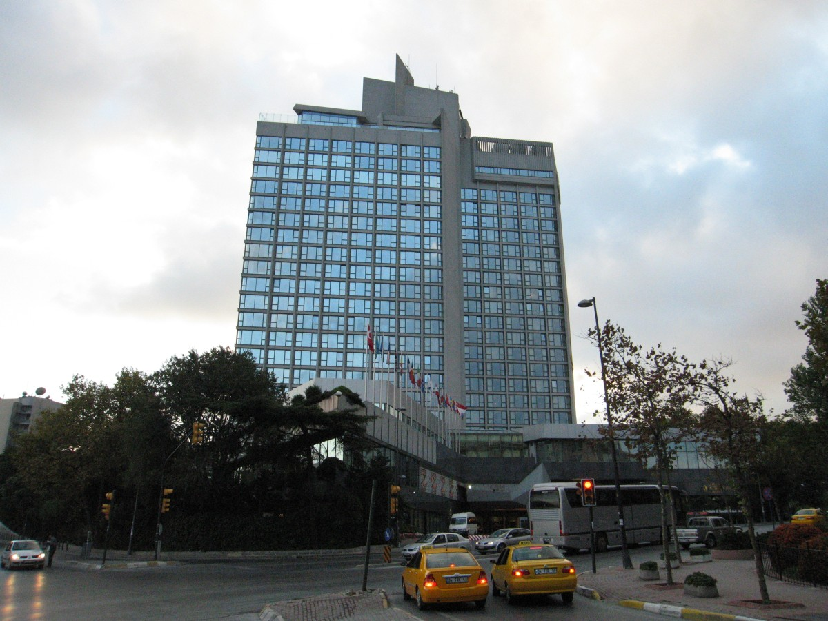 Ceylan Intercontinental Hotel in Beyoğlu district of Istanbul, Turkey. It was formerly the Sheraton Istanbul.